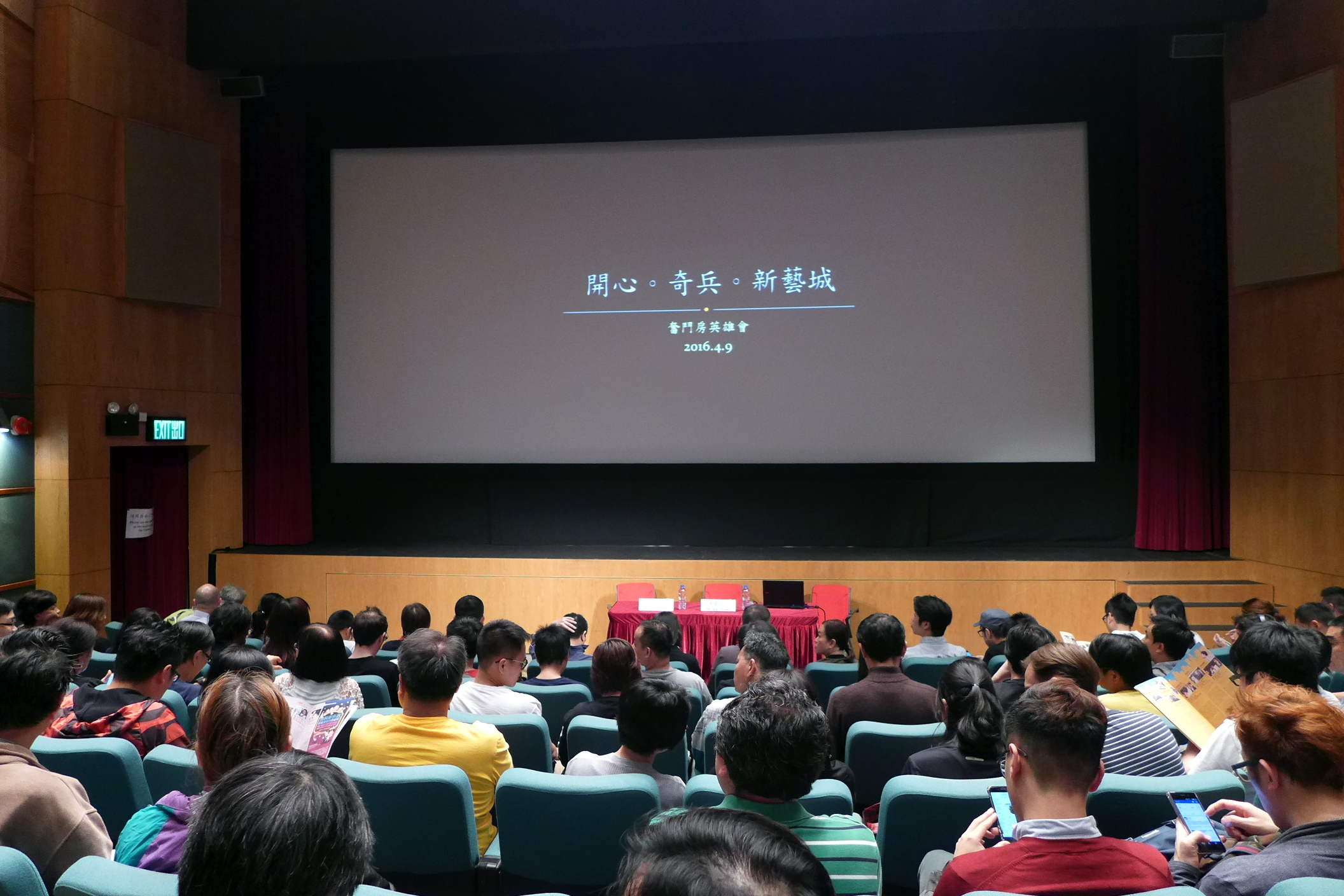 Hong Kong Film Archive Theatre